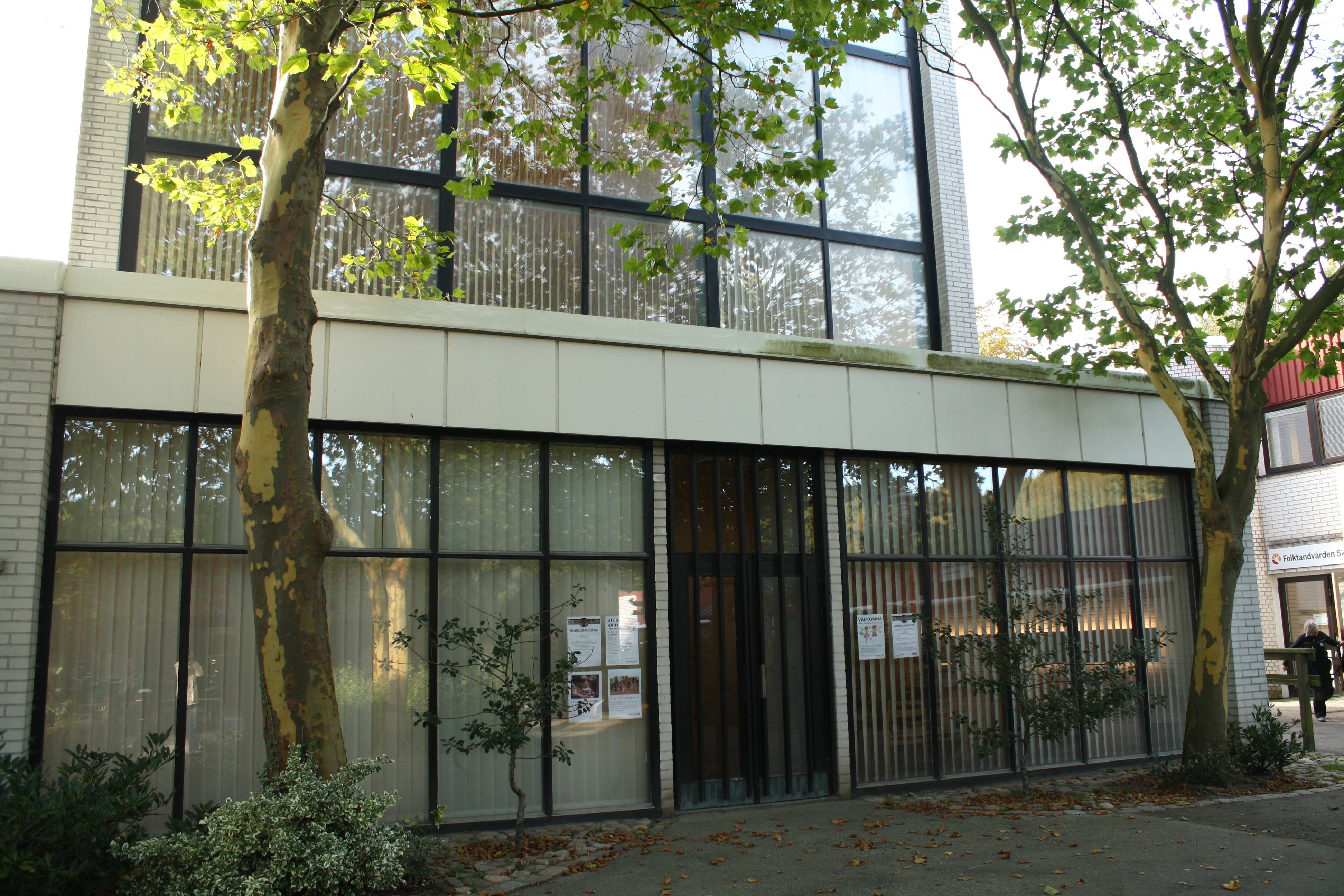 The church of Saint Canute at Linero, Lund, entrance